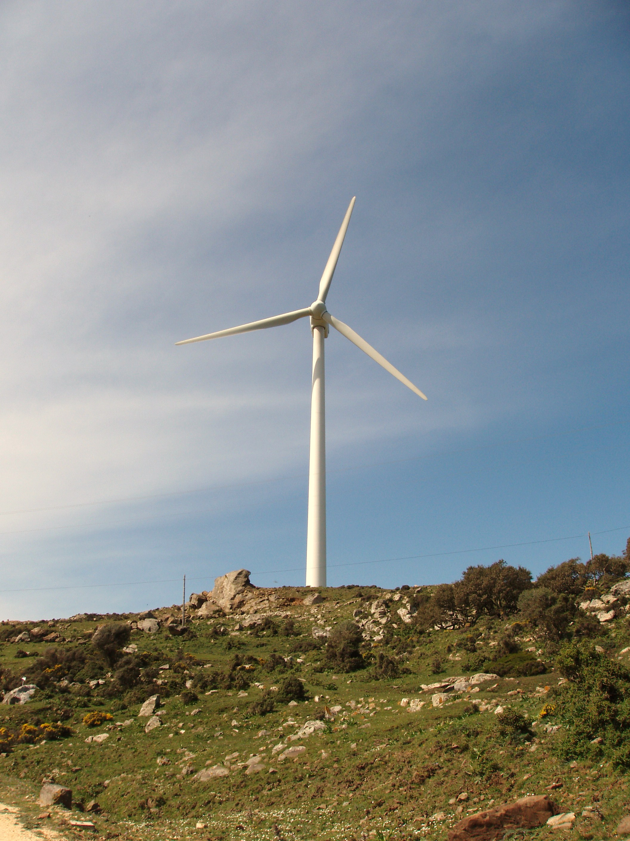 Aerogenerador en Tarifa